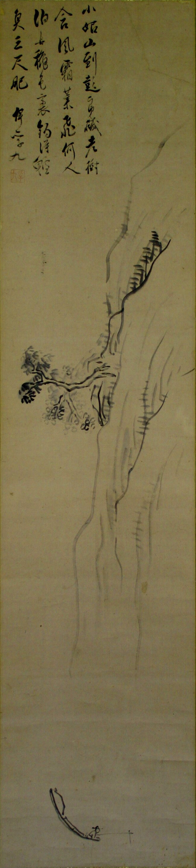 Yi Hai painting from the Nantoyōsō Collection